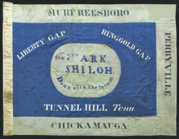 2nd pattern Hardee battle flag, originally of the 7th Arkansas, but modified for the combined 6th & 7th Arkansas; 30" x 37 1/4"; War Department capture no. 531. This flag bears the embroidered battle honor "SHILOH" in the center of the elliptical disc, over embroidered "Down with the Tyrant", and with "7TH ARK." above it in paint, with "6TH &" added in front of it, both in black. Similarly, three battle honors, "PERRYVILLE." "MURFREESBORO." and "CHICKAMAUGA" painted in black on the white border. Also painted in white on blue field, "LIBERTY GAP", "RINGGOLD GAP", and "TUNNEL HILL, Tenn." In the collection of the Old State House Museum in Little Rock, Arkansas. [Dimensions: 28.5" x 37.5"; blue wool bunting, white cotton, silk embroidery, with blue, black, and white painted letters.